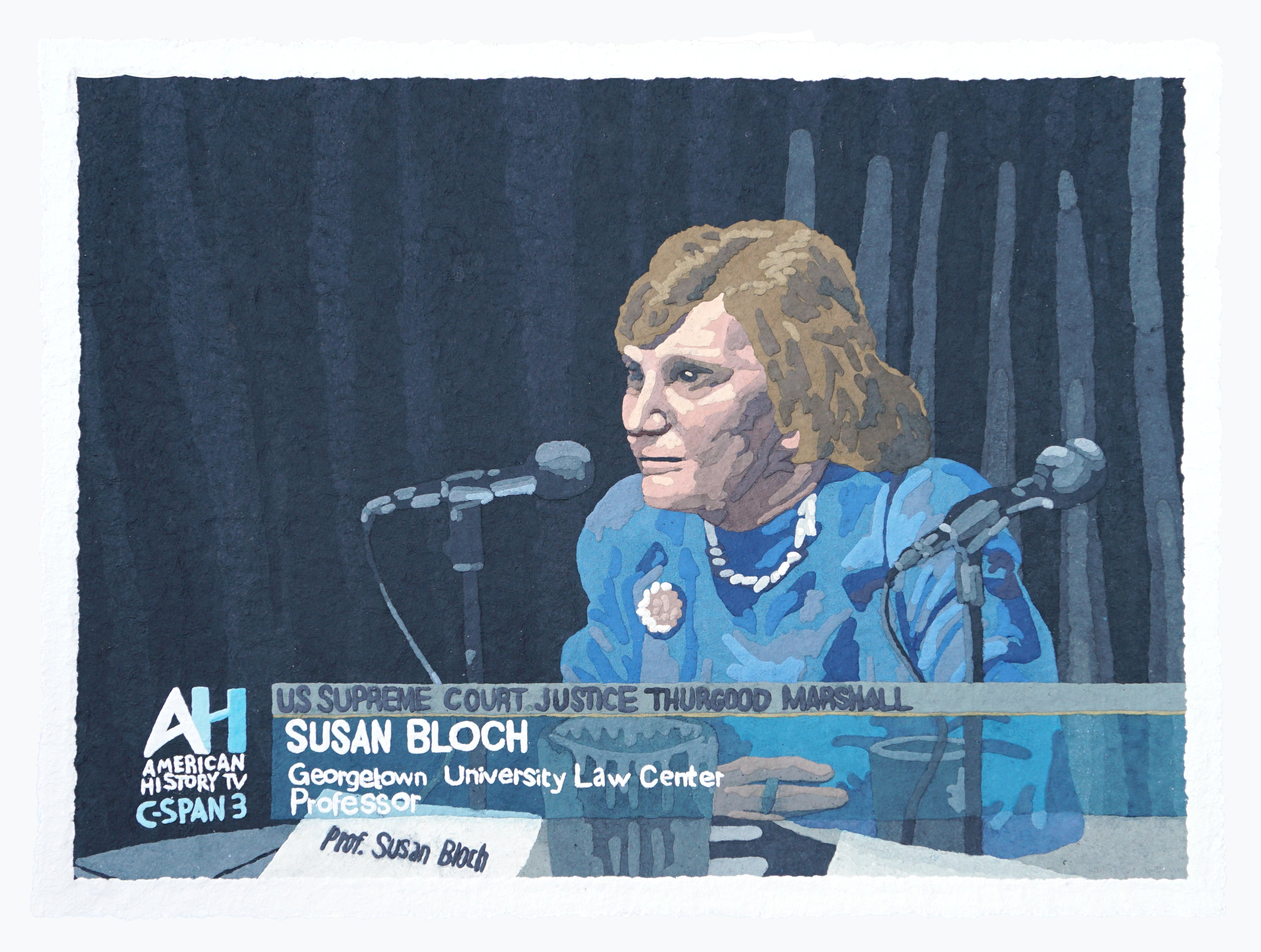 Painting of Susan Low Bloch File: H: 2887 pixels W:1824 pixels Resolution: 350ppi Physical Painting: H: 29.25 in. W: 38.25 in. Paper pulp and acrylic on paper, 2020